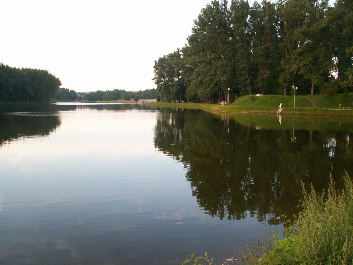 Lake on Silnica River in Kielce (Poland)